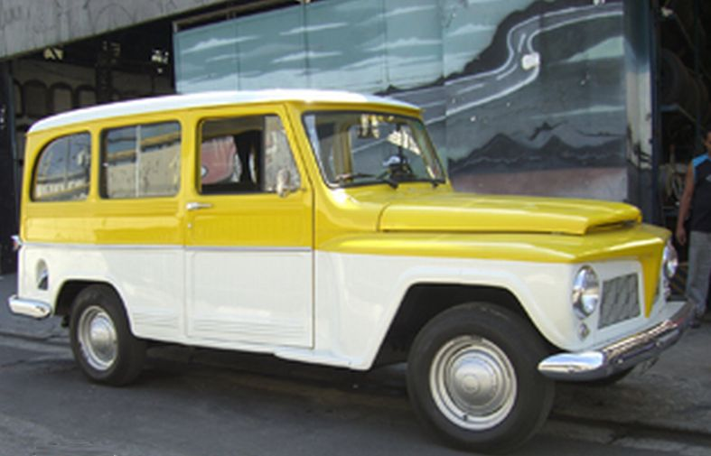 Rural Willys built in Brazil in the 1960s.